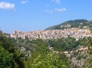 Jenne